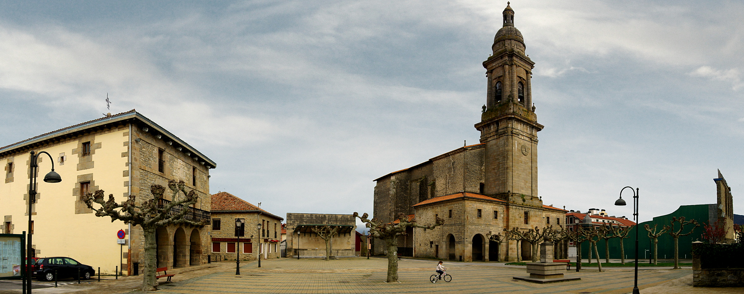 Main square in Alegría-Dulantzi (Araba, Basque Country, Spain)